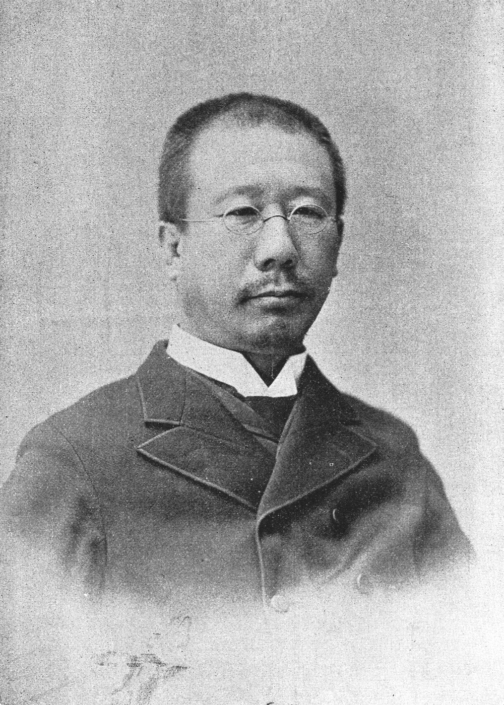 Toyama Masakazu, the new Minister of Education.